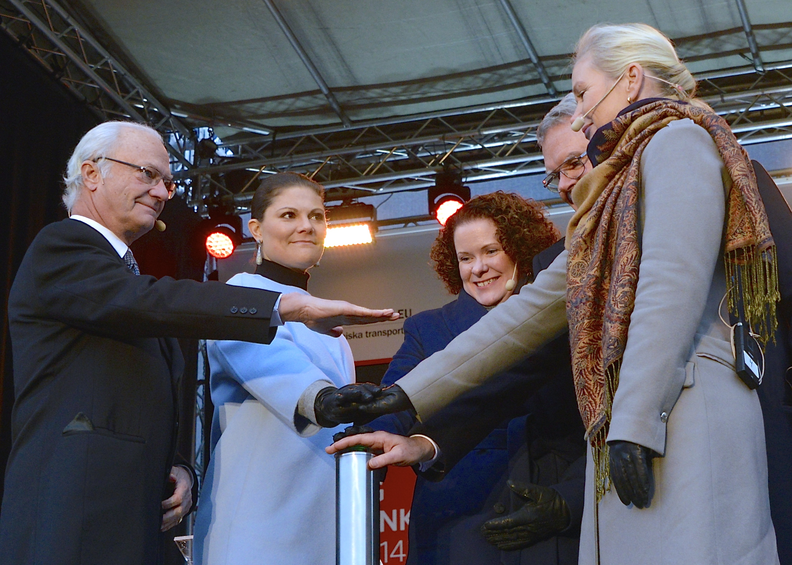 Northern Link in Stockholm inaugurated on November 30, 2014. From left: Carl XVI Gustaf of Sweden, Crown Princess Victoria, Karin Wanngård, Anna Johansson.